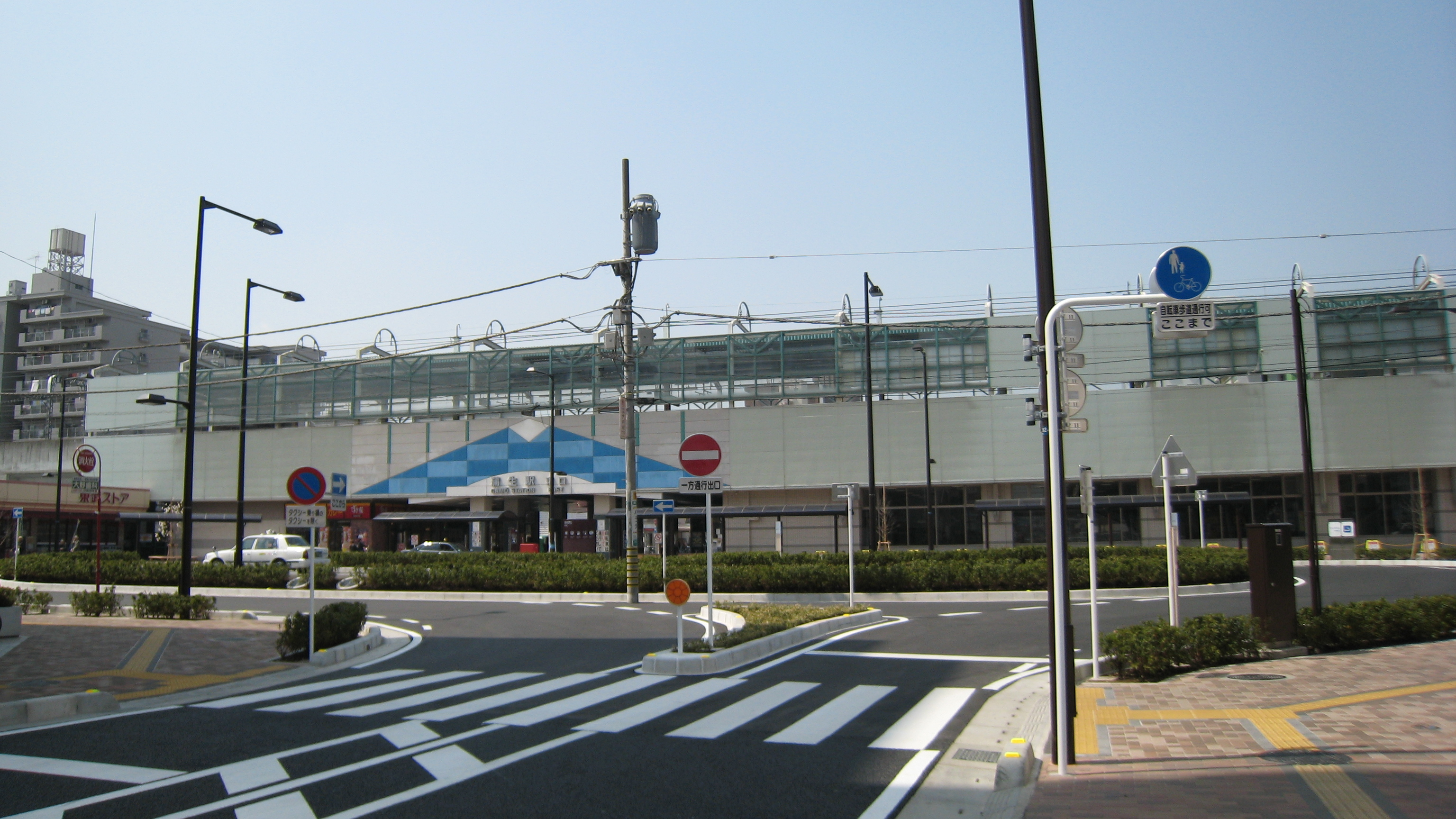 East side of Gamo Station on the Tobu Skytree Line